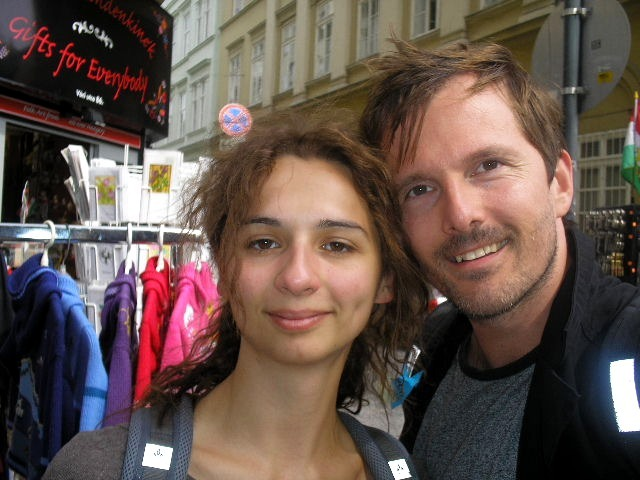 WGM and IM Iweta Rajlich, and her husband IM Vasik Rajlich, in Budapest